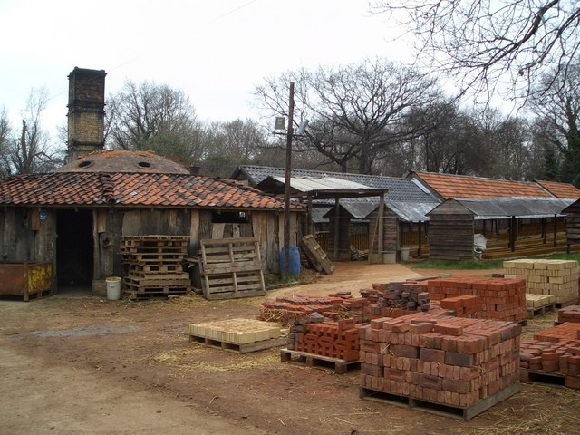 Bulmer Brick and Tile Works The 1930s coal-fired kiln on the left, with the drying sheds to the right and the end product stacked in the foreground.